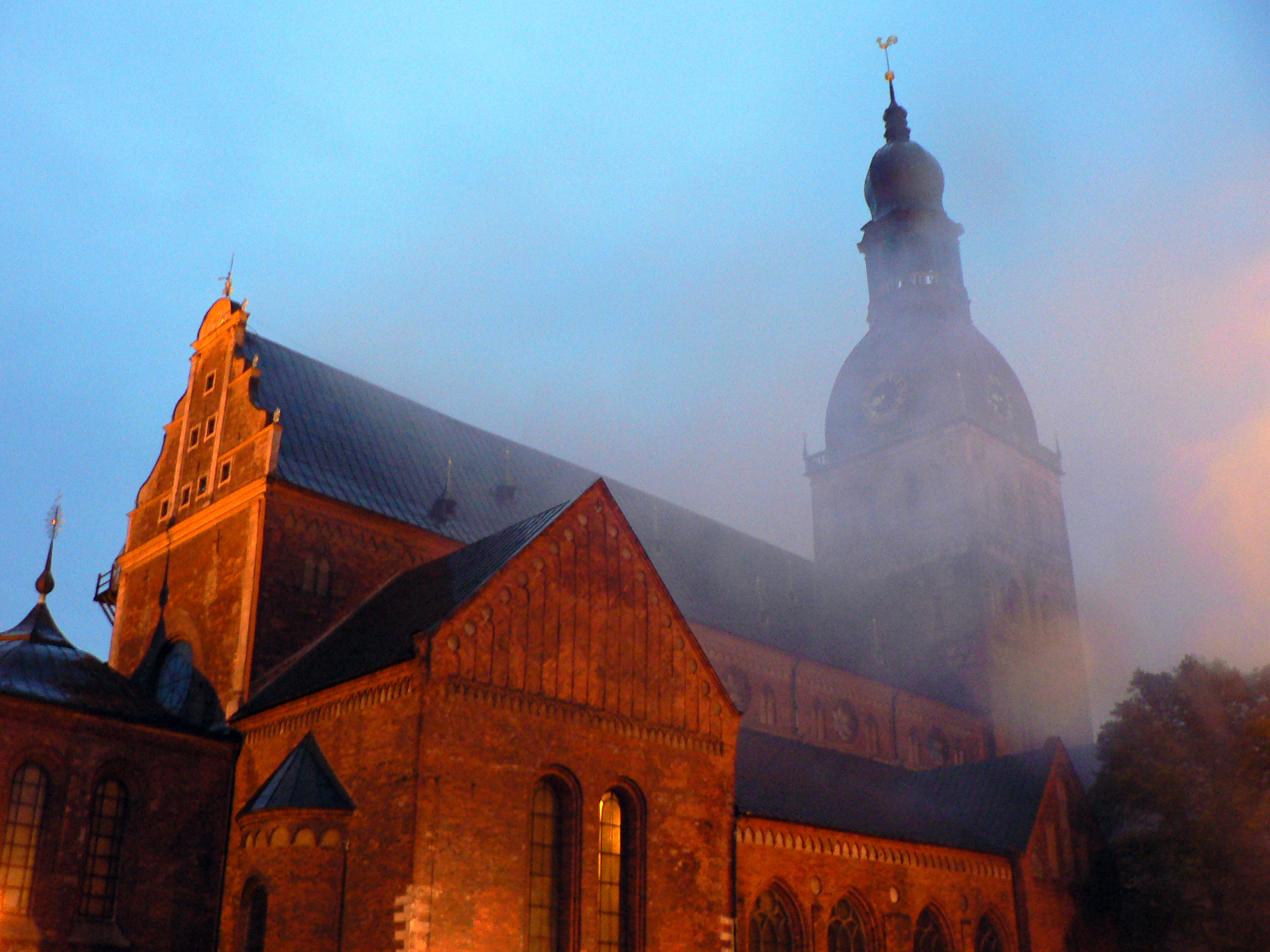 Riga Cathedral, Latvia.